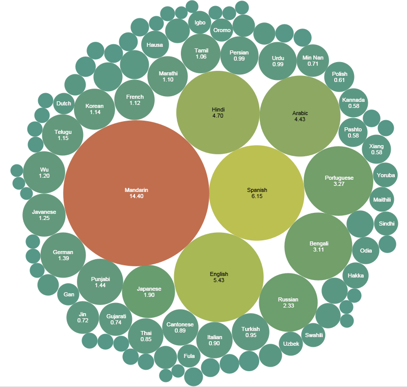 List of languages by number of native speakers, Packed bubbles.